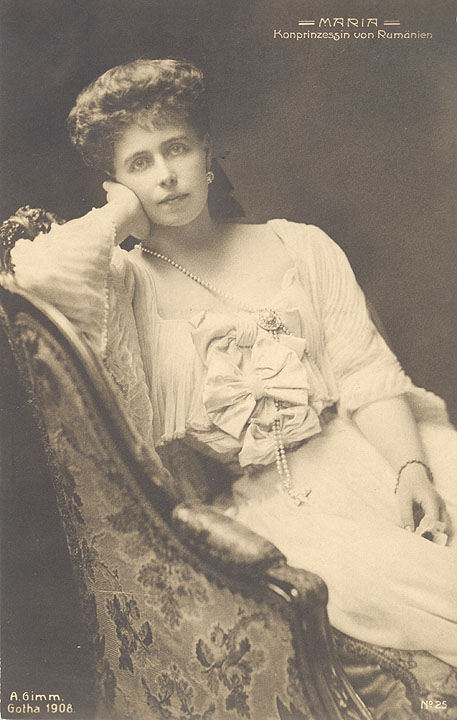 Queen Marie of Romania circa 1902.